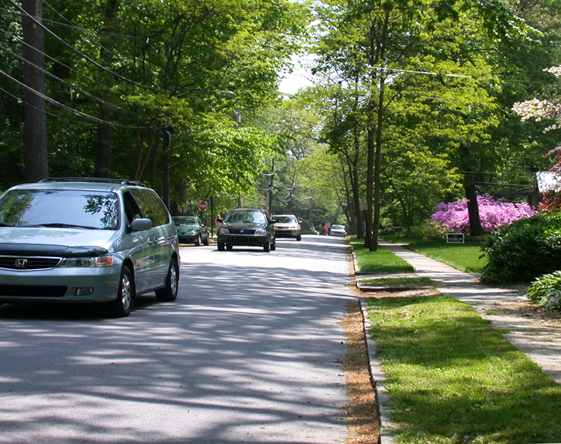 Photo illustrating various depth cues: perspective, relative size, occlusion, texture gradients.